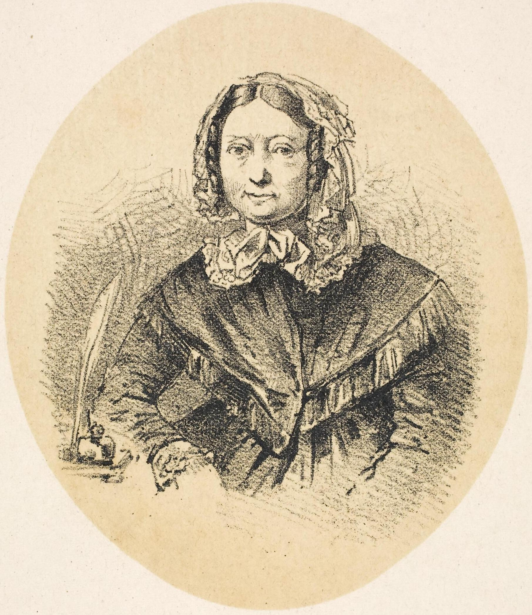 Portret Margaretha Jacoba de Neufville (1775-1856), door onbekende kunstenaar, ongedateerd (Rijksbureau voor Kunsthistorische Documentatie, Den Haag).